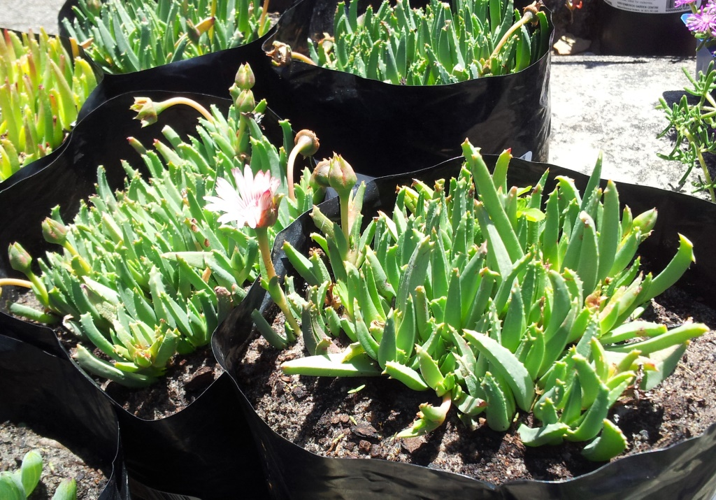 Acrodon bellidiflorus